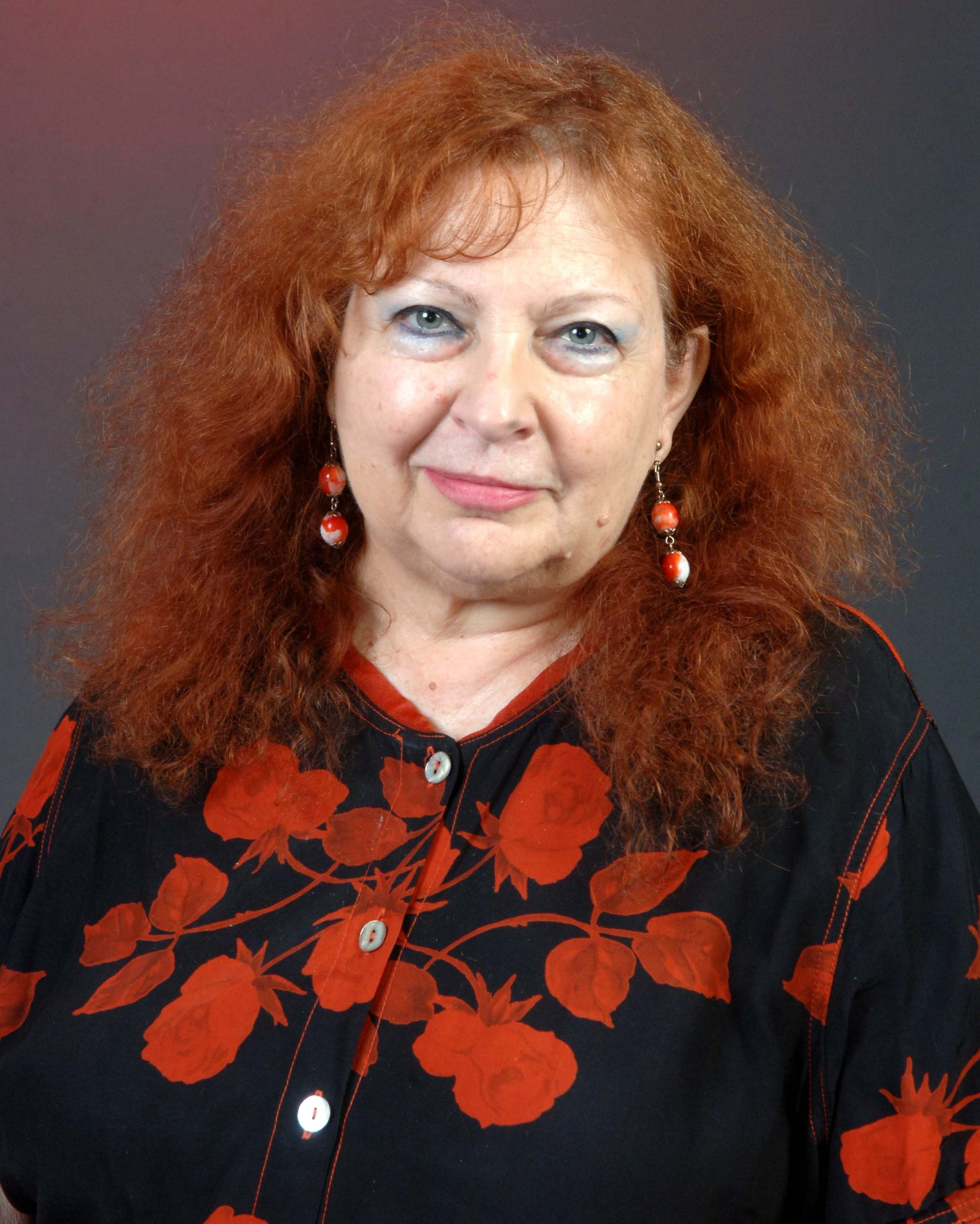 A portrait of author Ruth Almog.